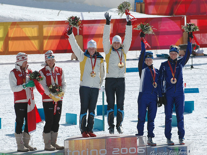 Podium for the team sprint in the 2006 Winter Olympics in Torino. Gold: Lina Andersson and Anna Dahlberg, Sweden. Silver: Beckie Scott and Sara Renner, Canada. Bronze: Virpi Kuitunen and Aino-Kaisa Saarinen, Finland.